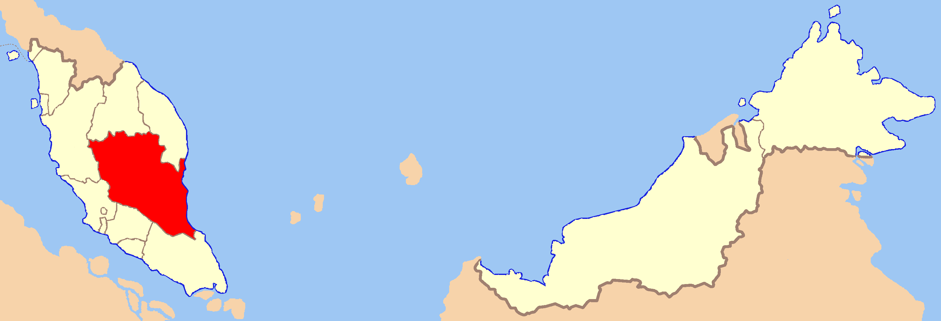 Map of Malaysia with Pahang highlighted